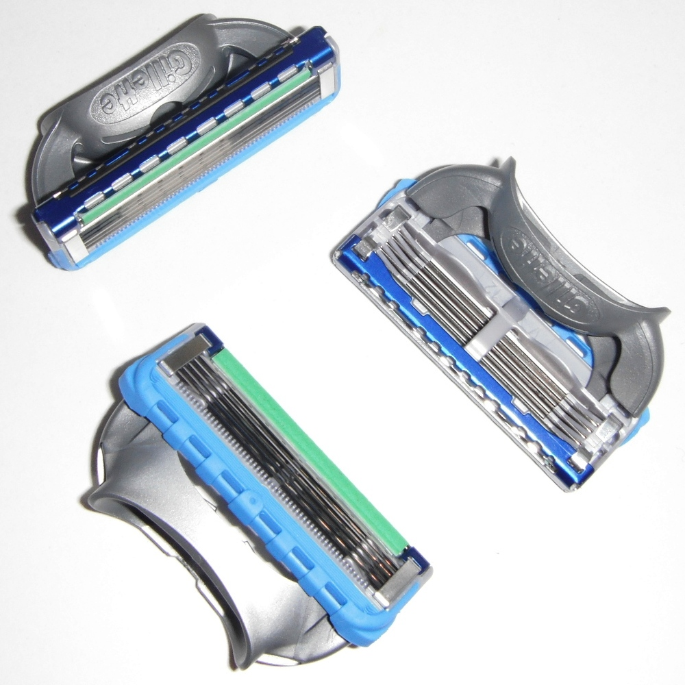 Gillette Fusion ProGlide Power razors